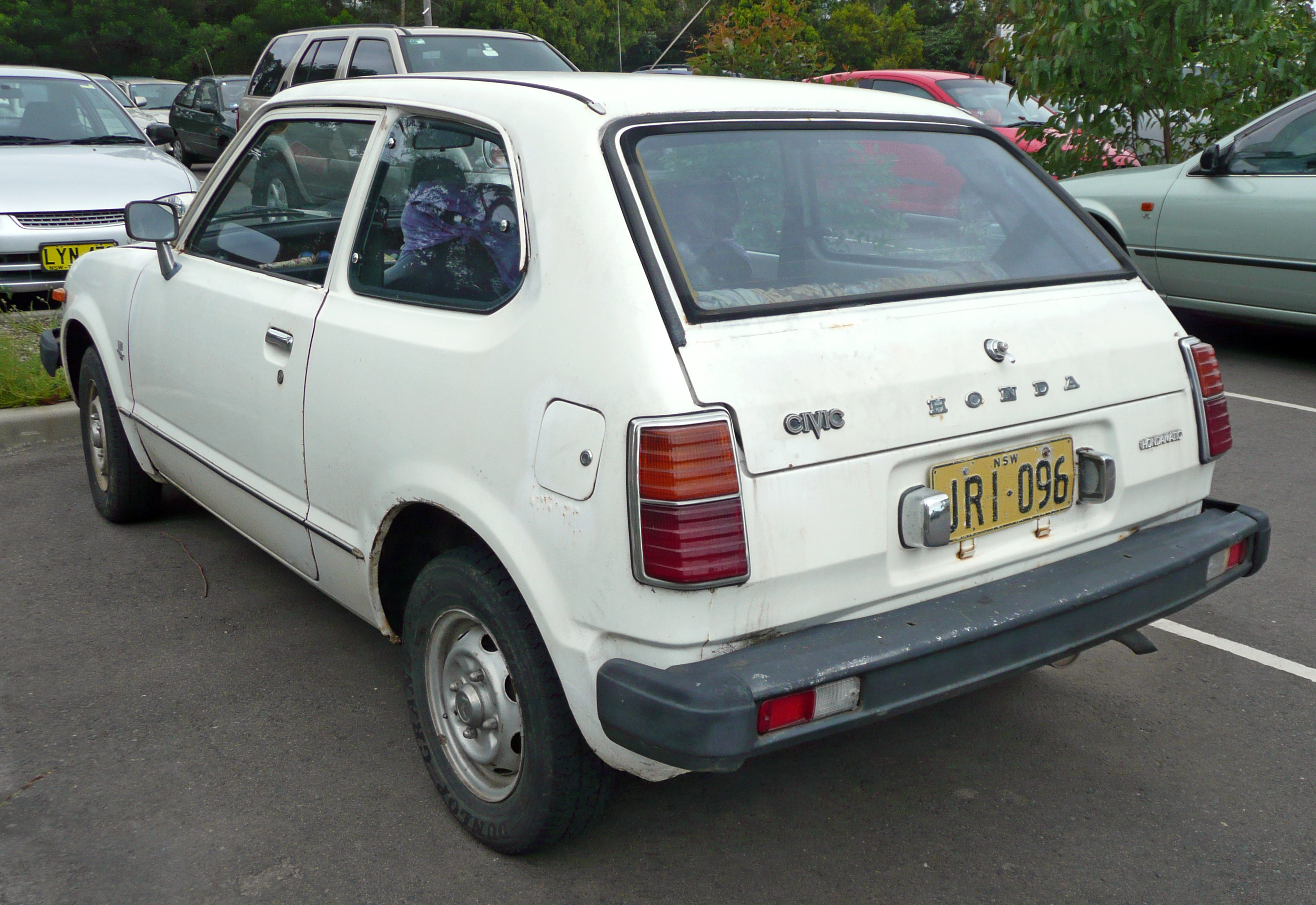 1978 Honda Civic 3-door hatchback. Photographed in Kirrawee, New South Wales, Australia.